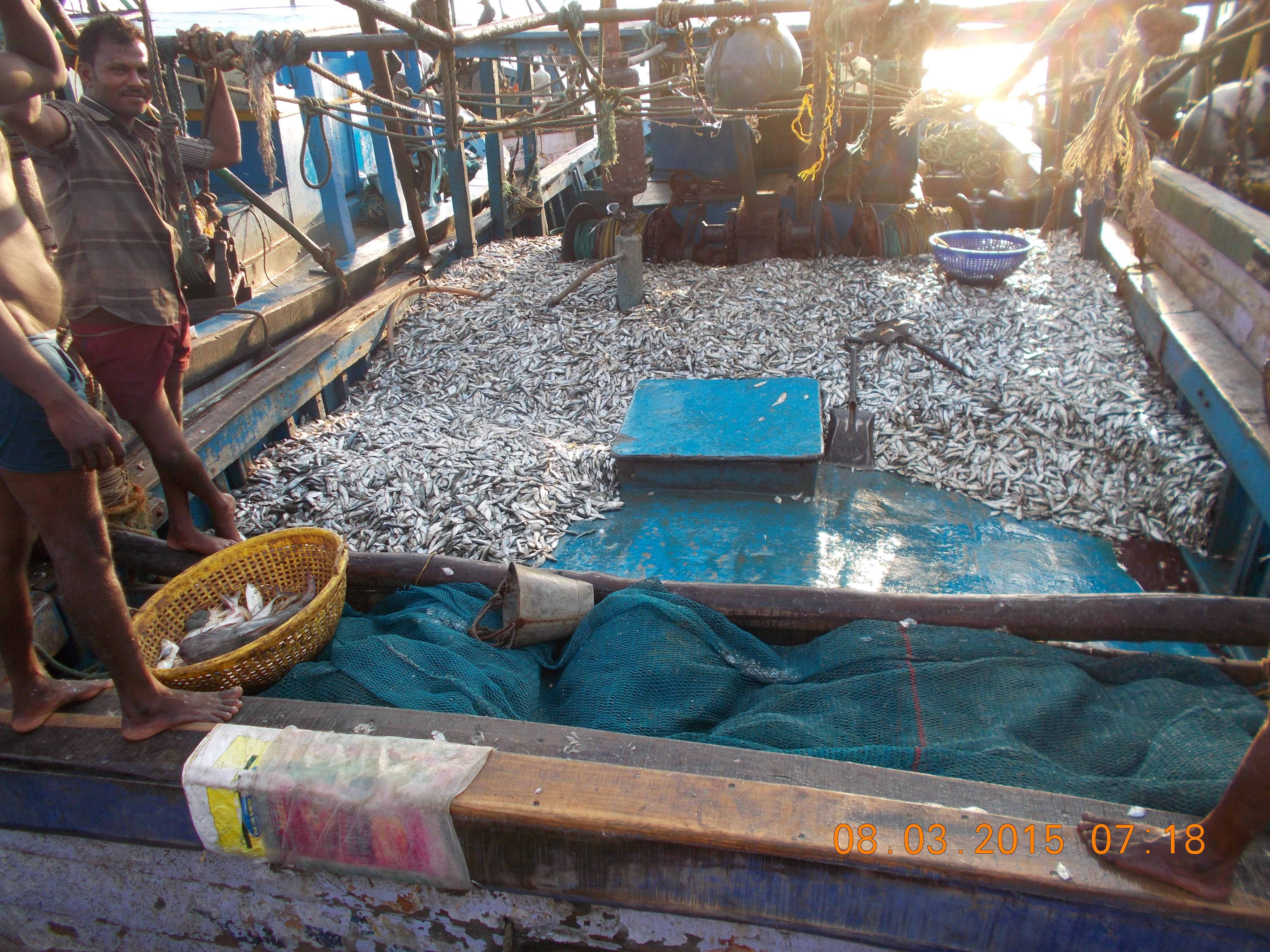 A fishing trawler at Rameswar port with maximum load of sardines fish catch.